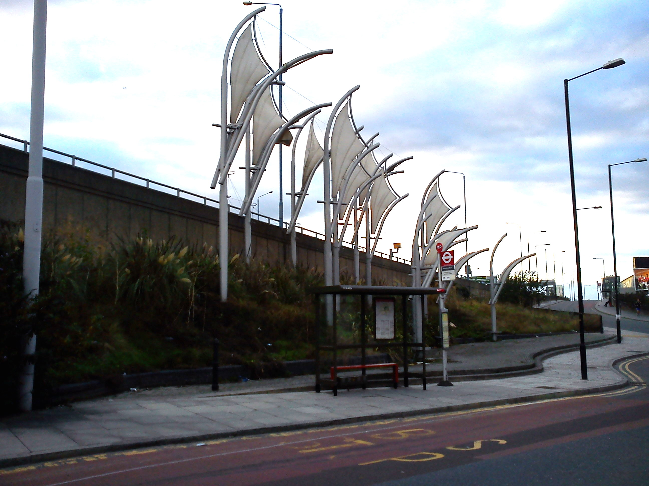 Fish tail sculptures at the junction of Monier Road and Wansbeck Road, Fish Island, Tower Hamlets, London